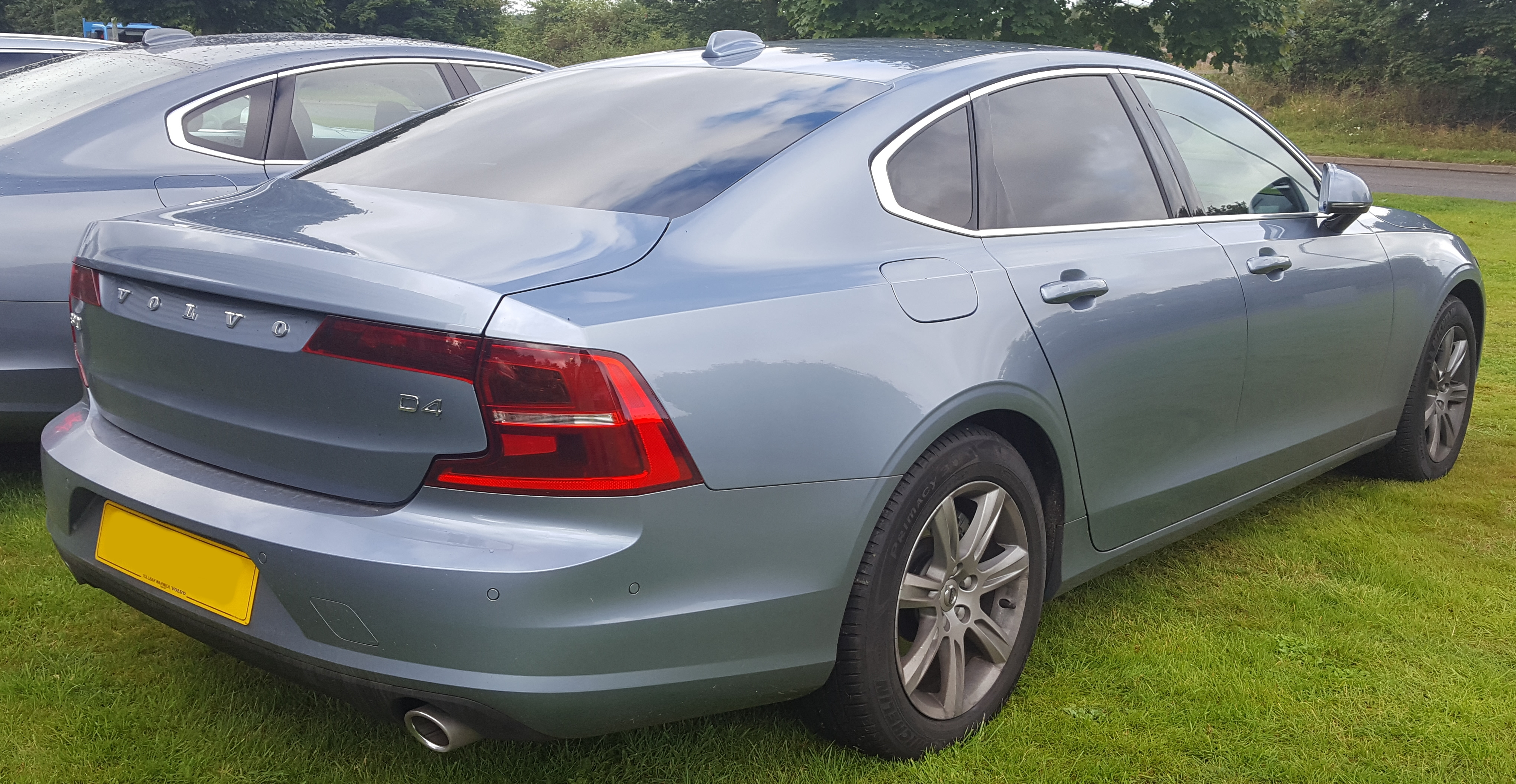 2017 Volvo S90 Momentum D4 Automatic 2.0 Rear Taken in Leamington Spa